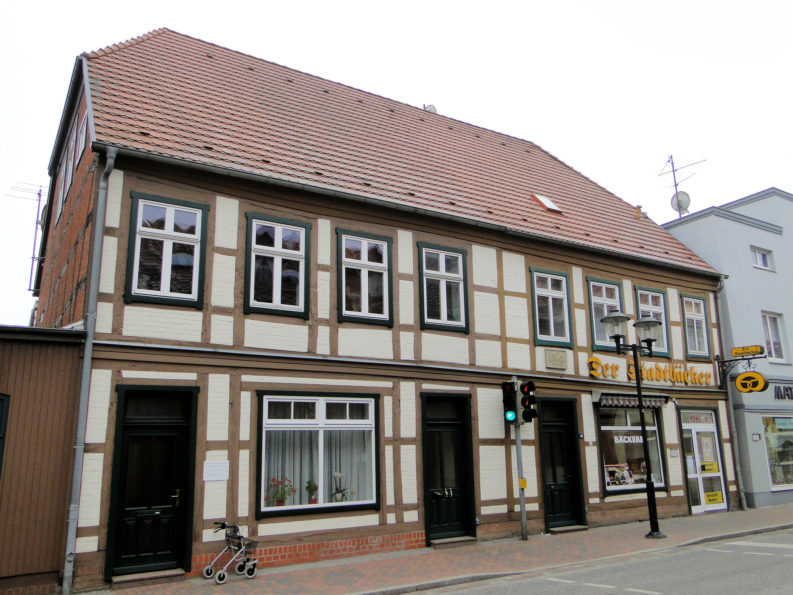 Home of John Brinckman in Goldberg, district Ludwigslust-Parchim, Mecklenburg-Vorpommern, Germany